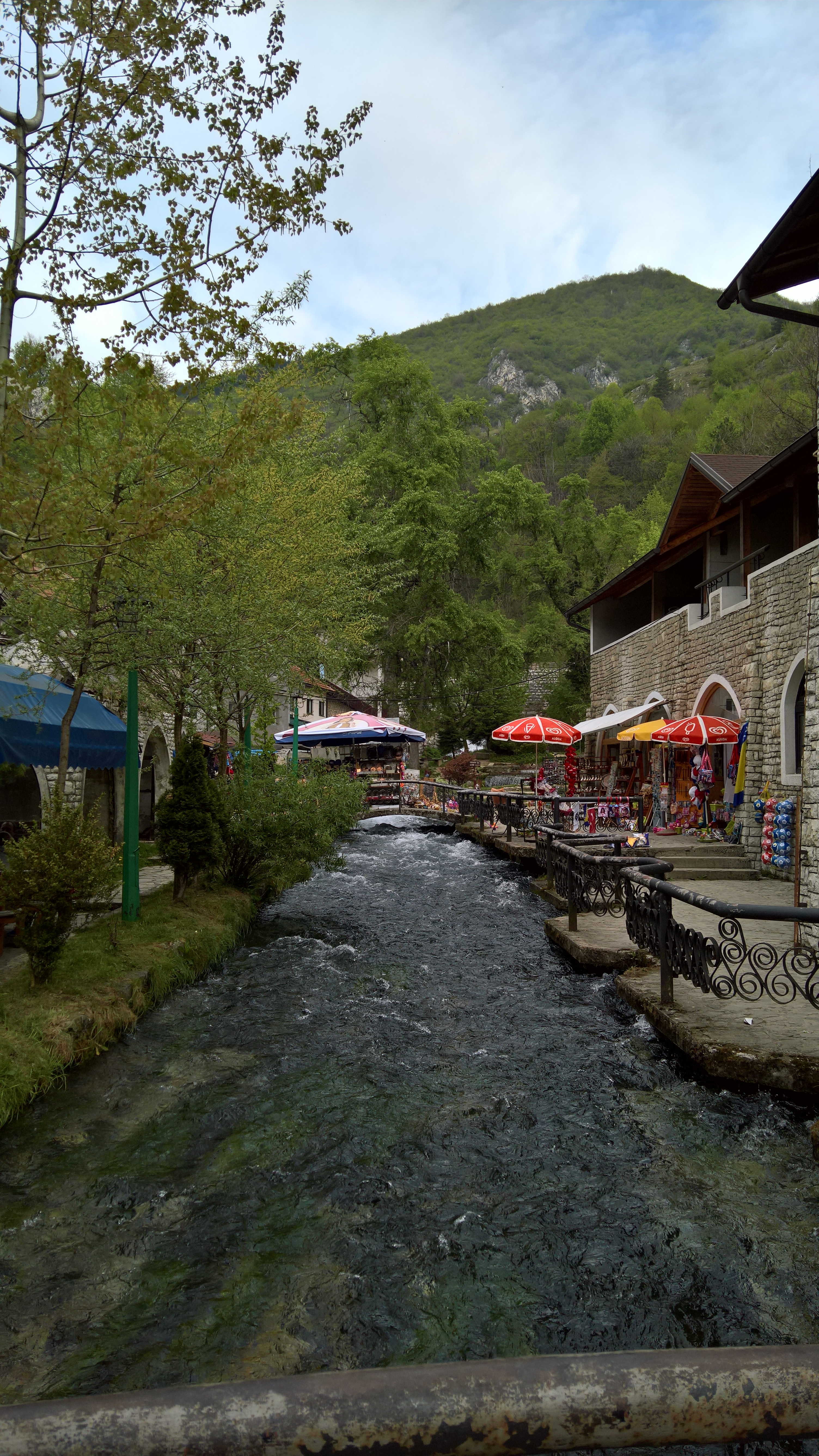 Plave vode